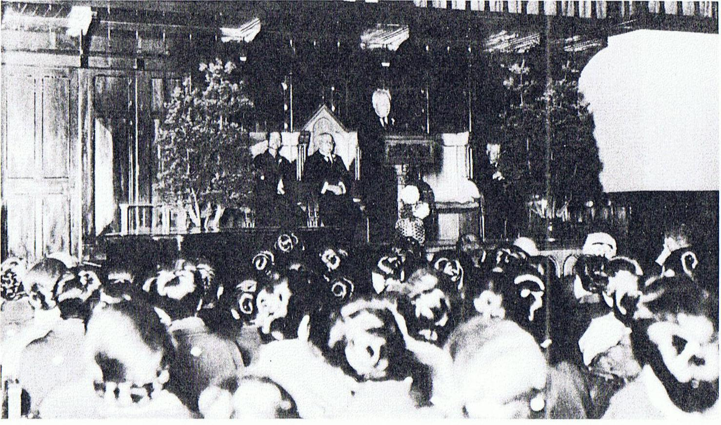 Reinanzaka Church,TOKUTOMI Sohō